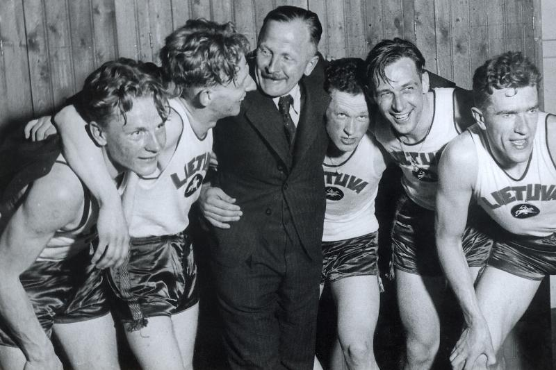 dr. Antanas Jurgelionis, Lietuvos krepšinio rinktinė 1937 m.